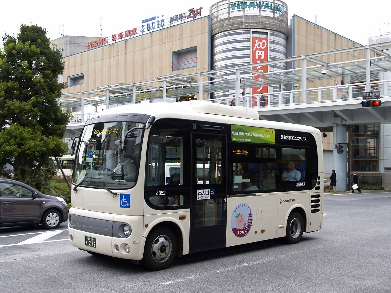 Fleet of Sotetsu Bus, for community route bus in Ebina city. Model: Hino Poncho HX6JHAE License plate: KNS200 A*212 Place: neighbour of Ebina station east, Ebina city, Kanagawa Japan